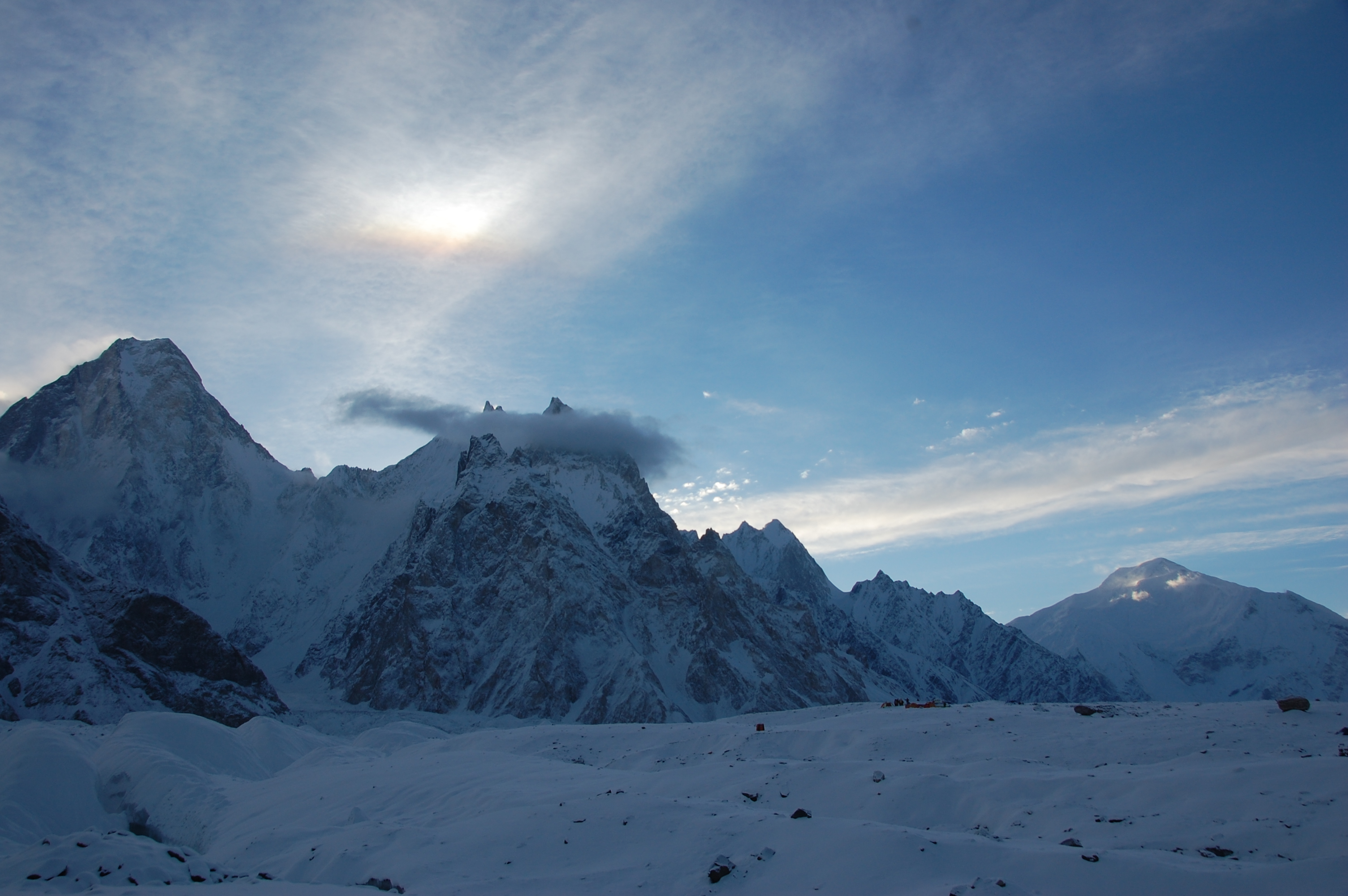 from left to right: Gasherbrum IV, Gasherbrum VII (with "Twins", behind clouds), Gasherbrum VI (the higher of the two "little" peaks right from centre) and Baltoro Kangri